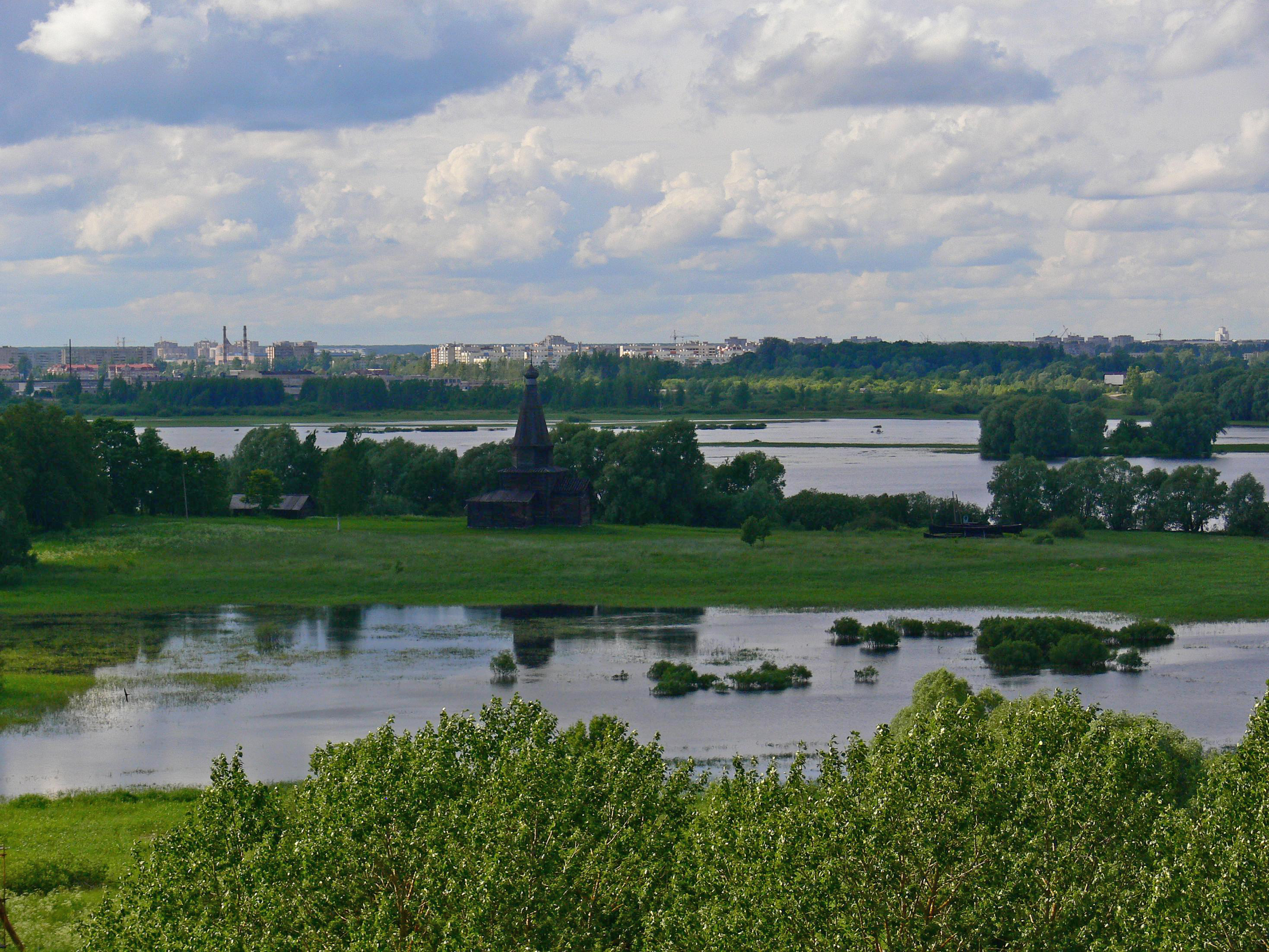 Miachino lake in Veliky Novgorod, Russia